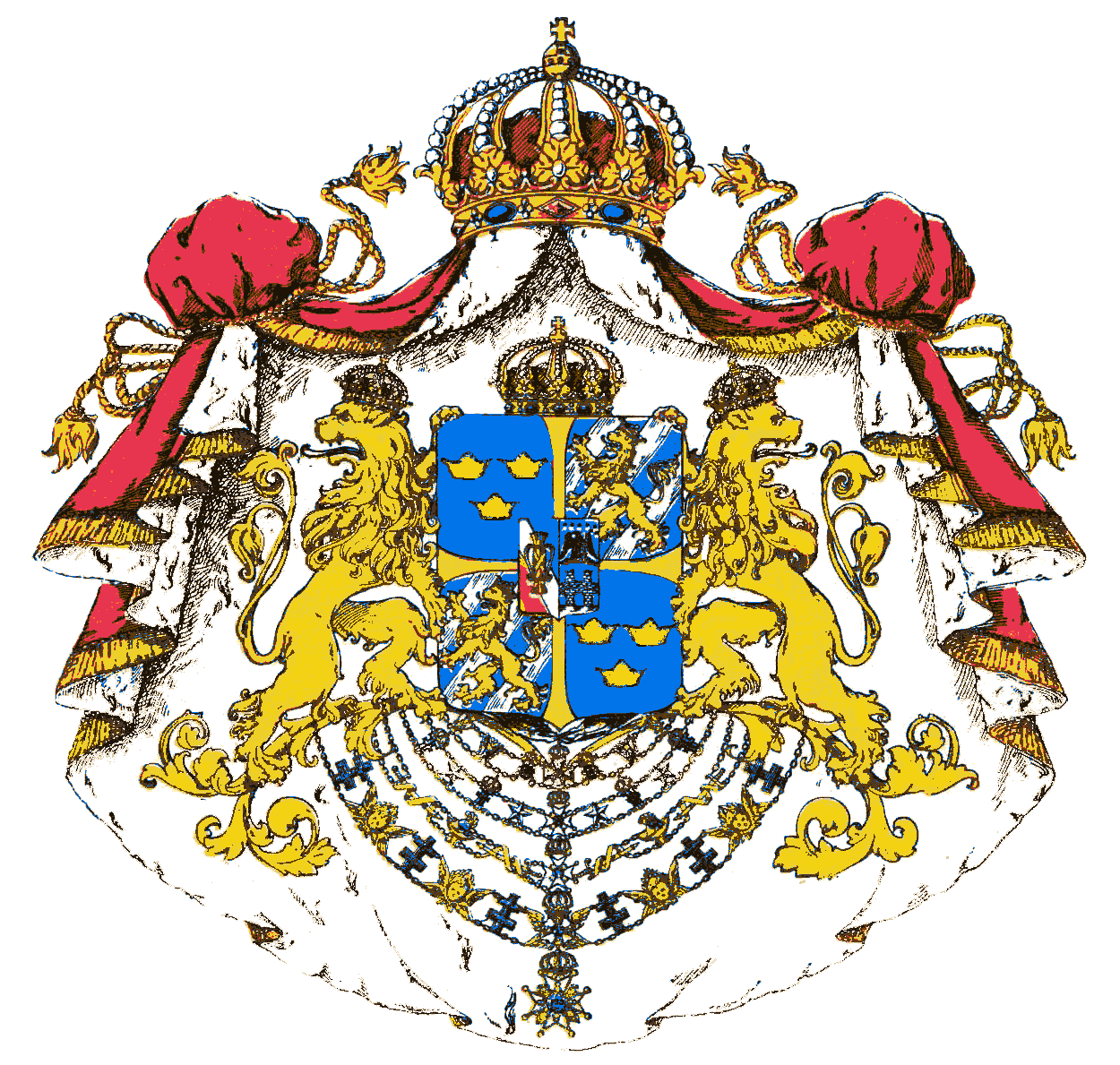 The Swedish Greater Coat of Arms until 1908. Since then, only the collar of the Order of the Seraphim is used around the shield.